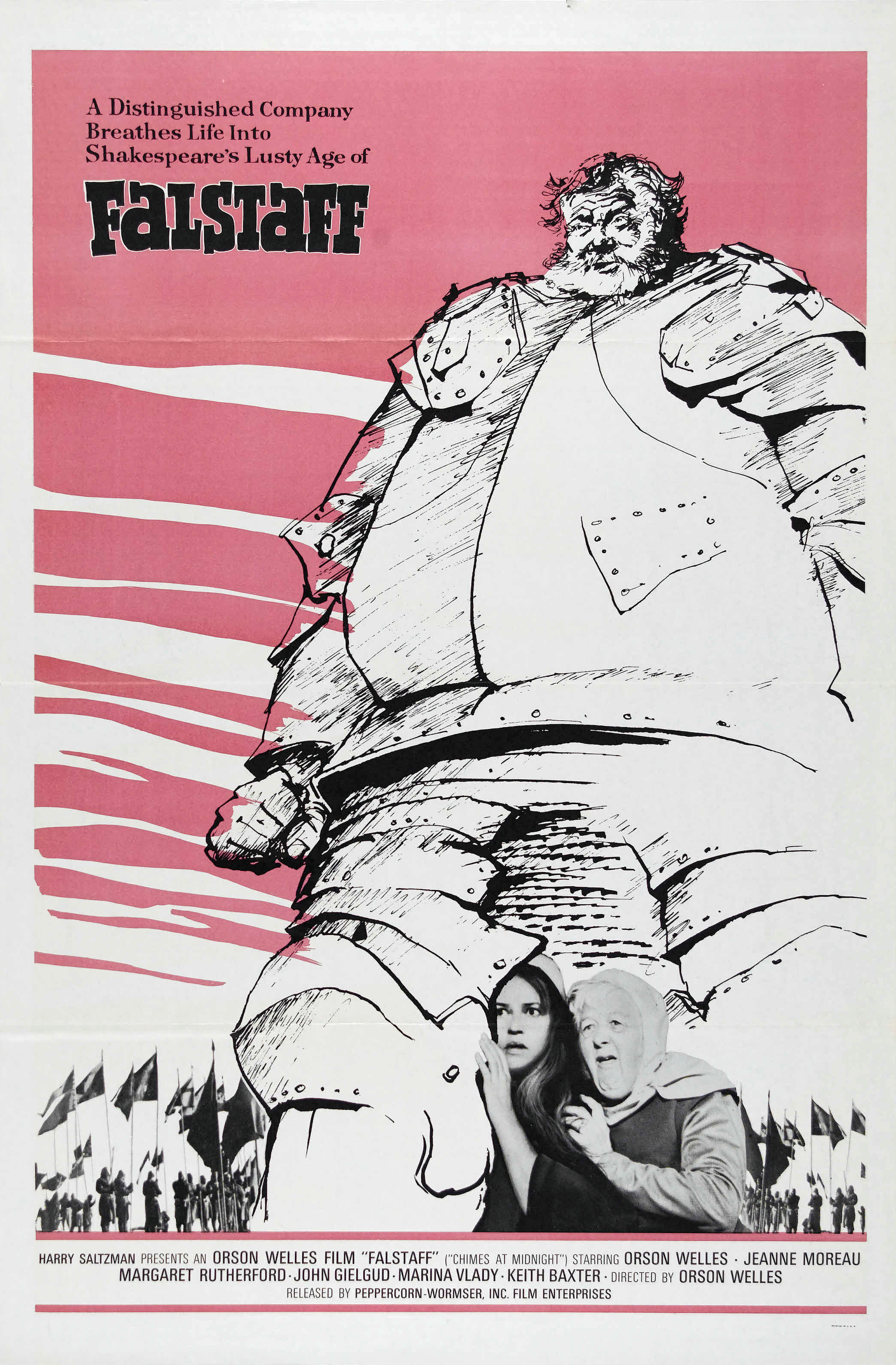 Poster for the 1967 U.S. release of the 1966 film, Chimes at Midnight, titled Falstaff